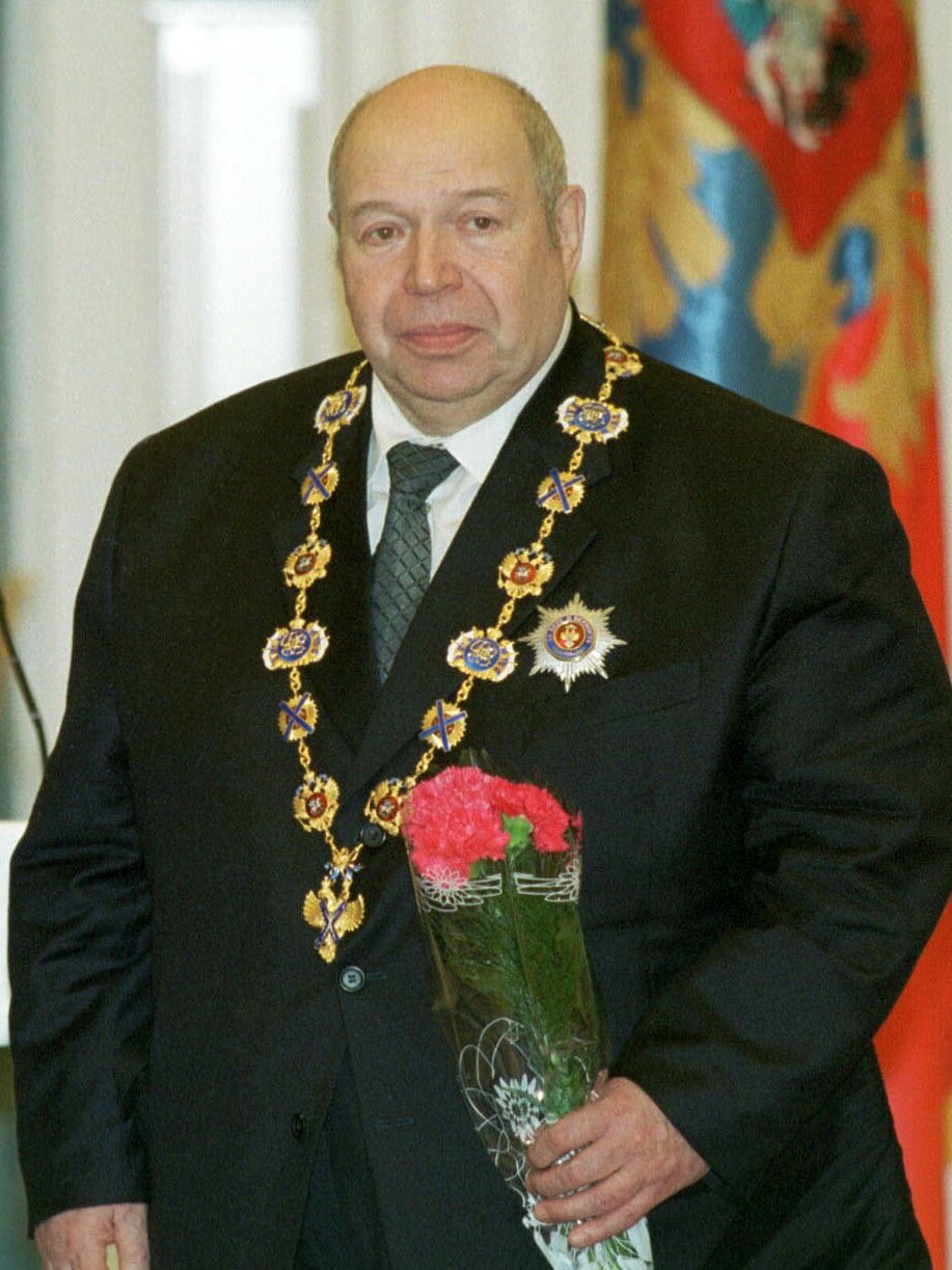 Valeriy Shumakov wearing the chain and star of the Order of Saint Andrew